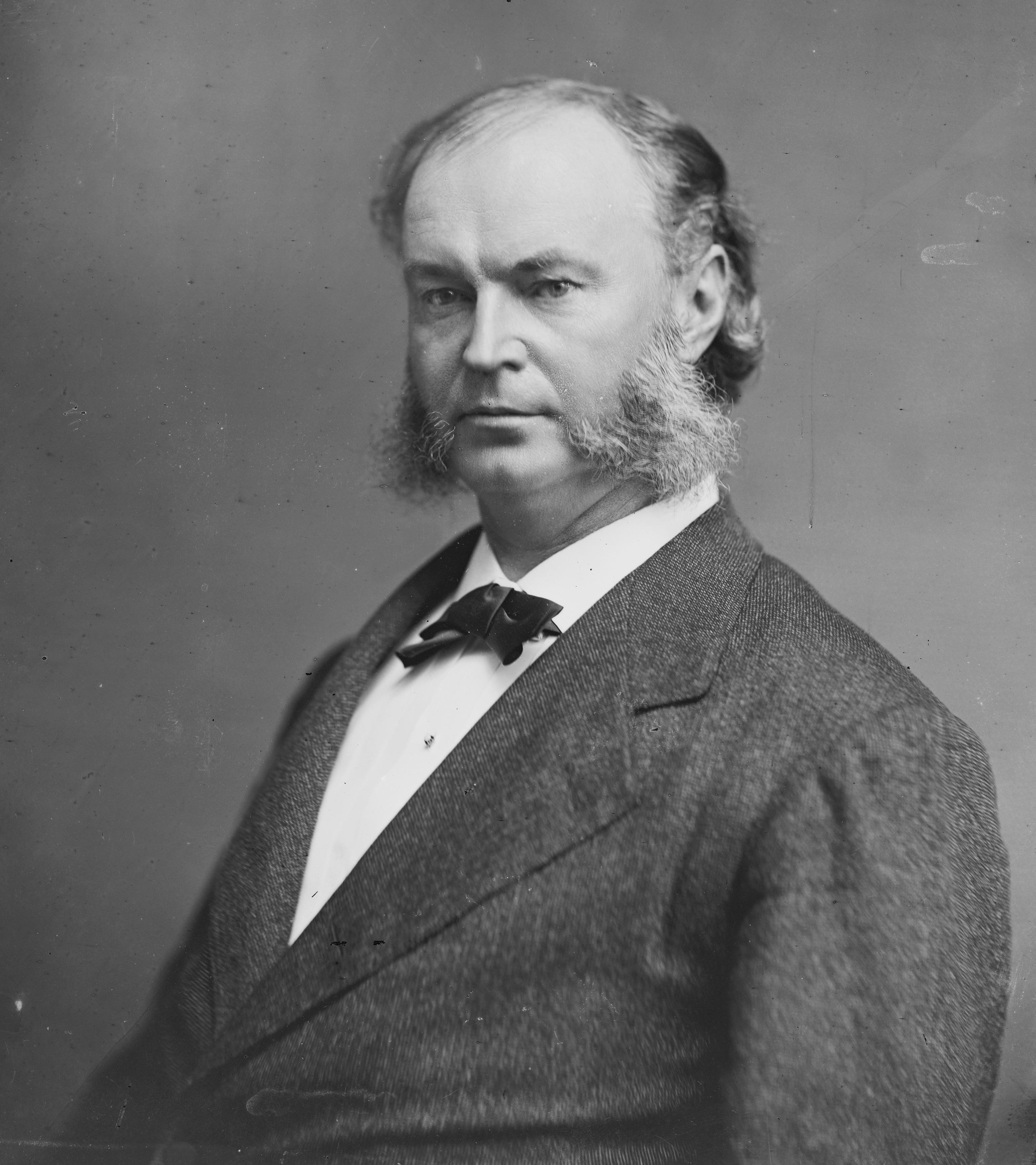 Theodore Fitz Randolph. Library of Congress description: "Randolph, Hon. Theodore Fitz of N.J.".